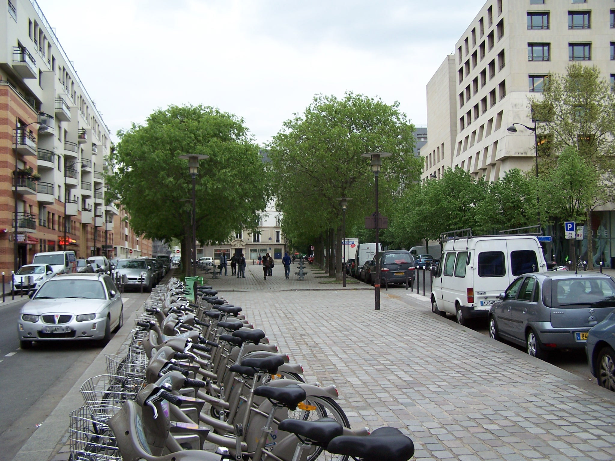 View of the square, along the rue de Bercy, in Paris